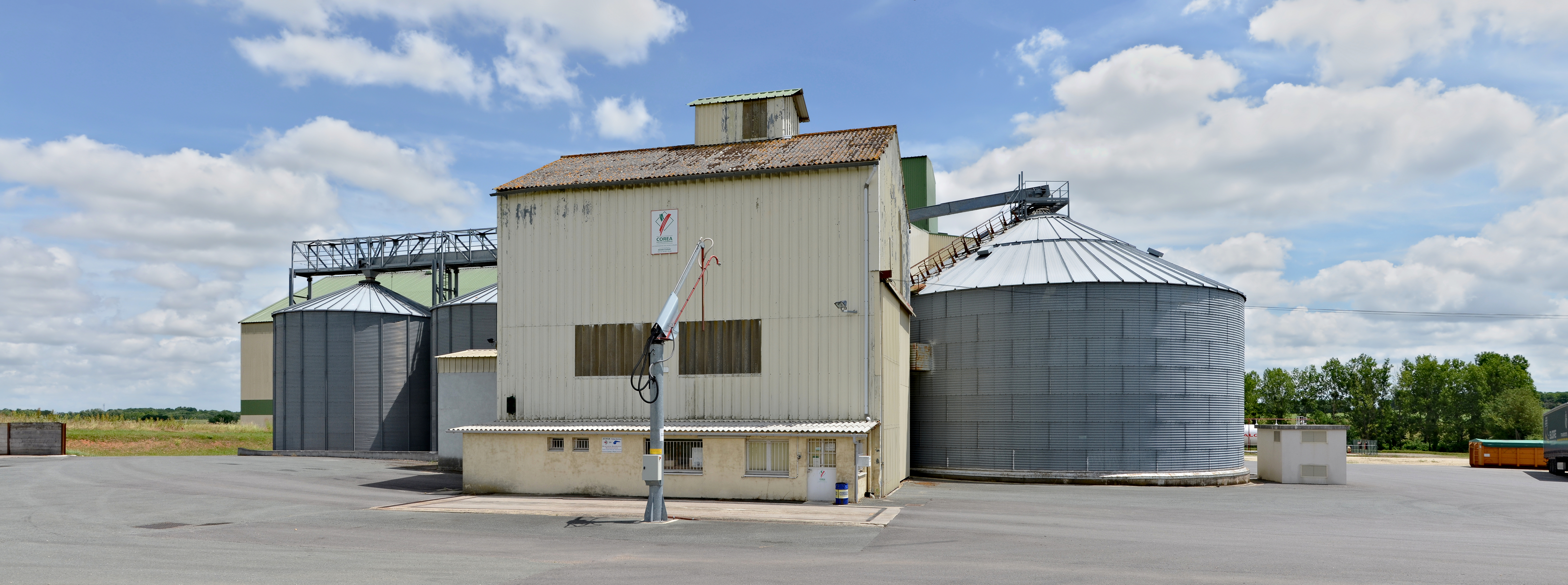 Silo COREA Poitou-Charentes, between Civray and Sommières-du-Clain, Romagne, Vienne, France.